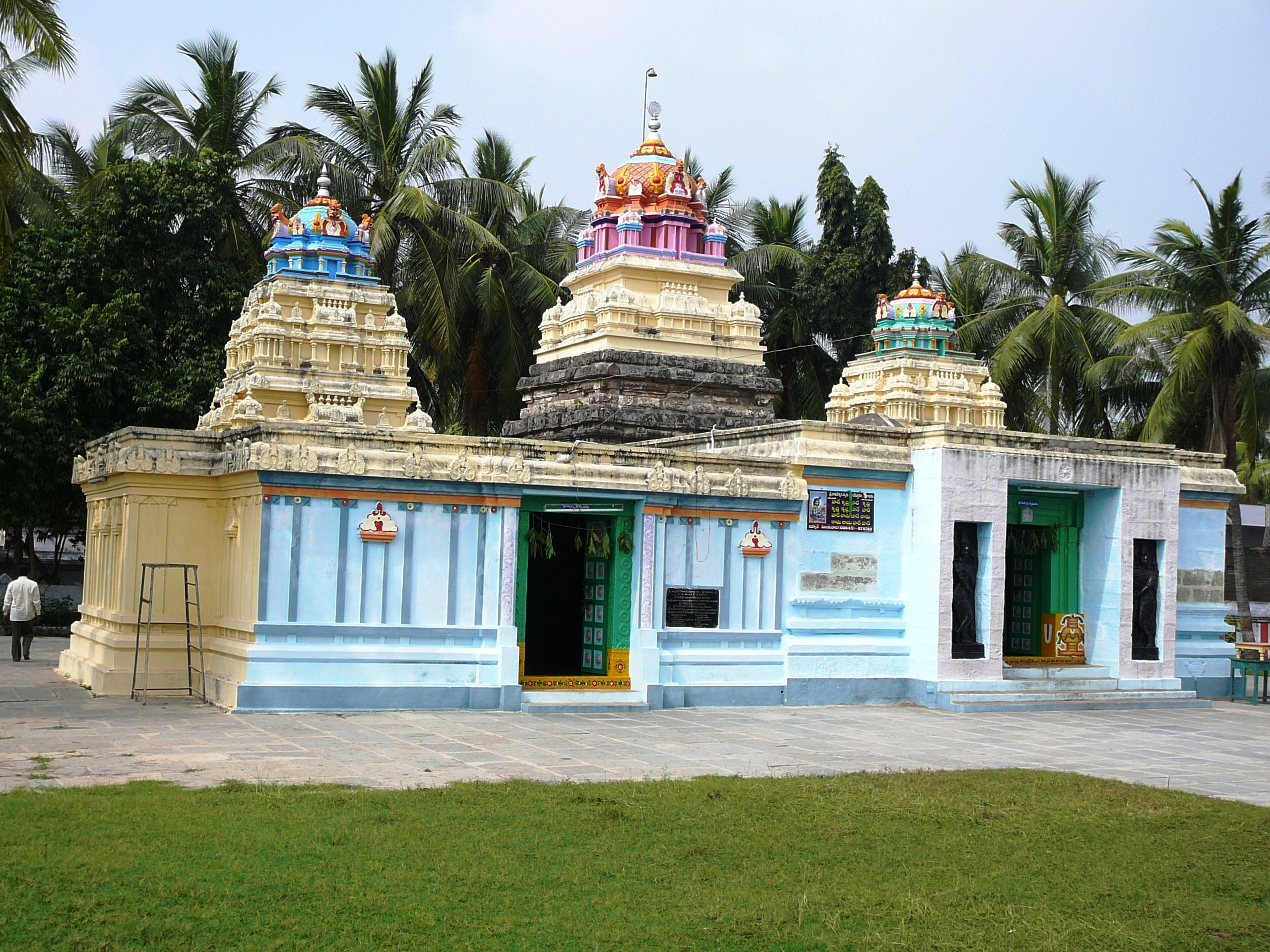 Image of Sikhara of Lord Andhra Vishnu Temple at Srikakulam, Krishna District, Andhra Pradesh, India.